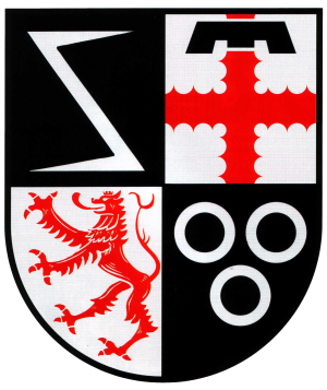 Coat of arms of Bullay